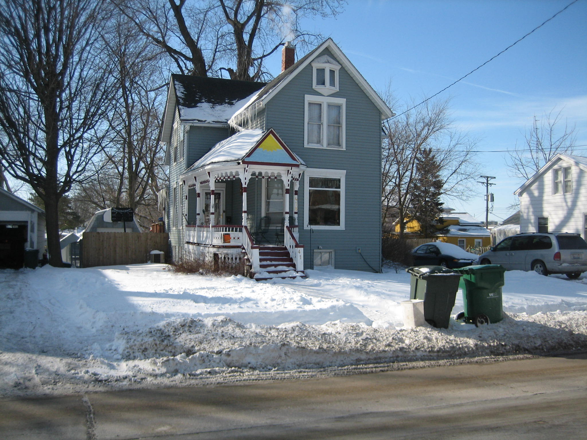 418 W. High St. Sycamore, Illinois. Sycamore Historic District, National Register of Historic Places.